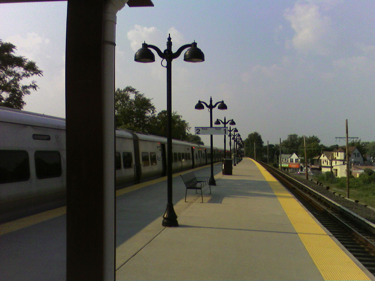 The Saint Albans LIRR station.